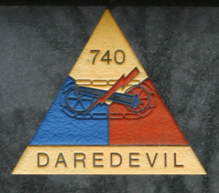 Oofzeeche vum 740th Tank Battalion